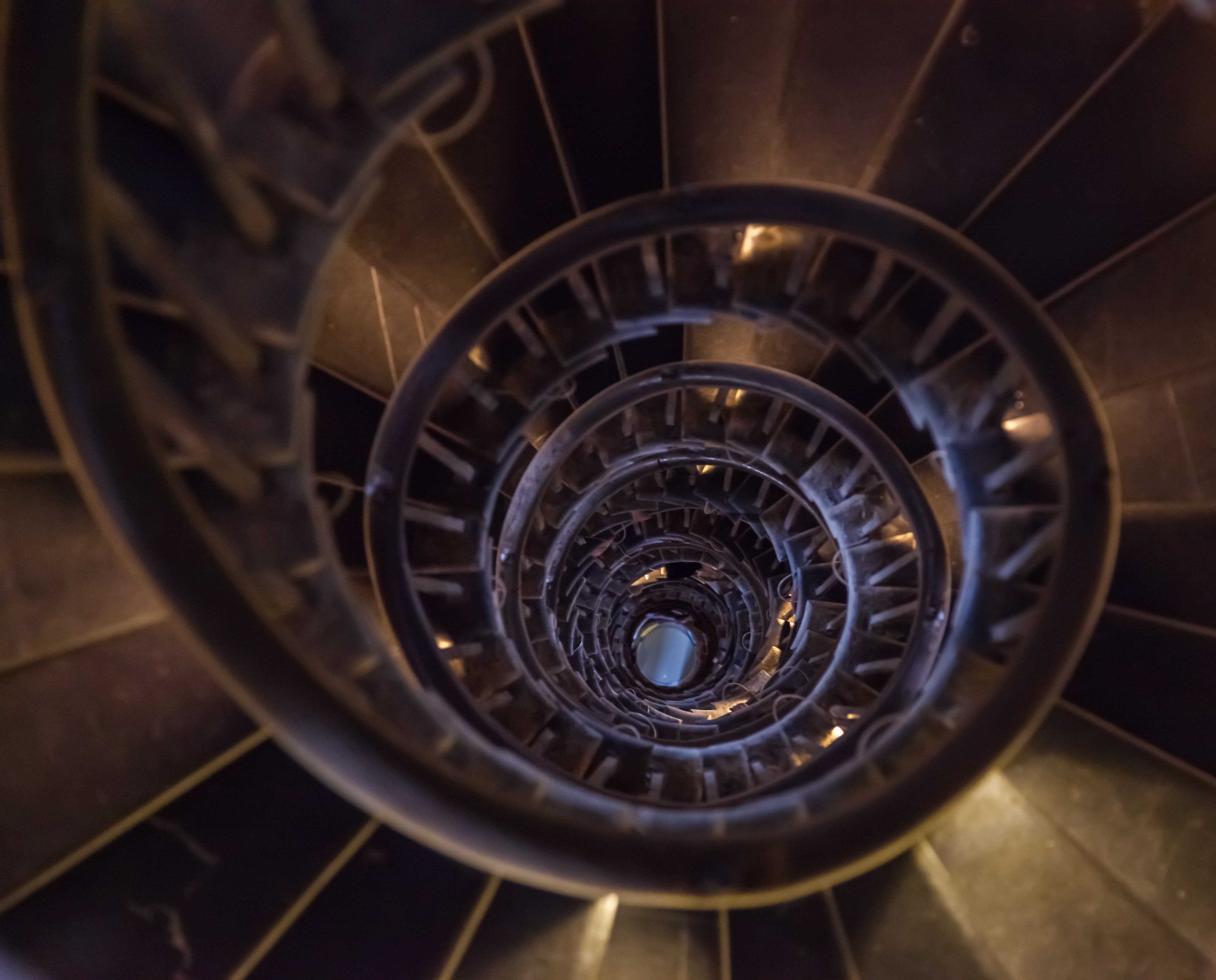 The Monument to the Great Fire of London, London, England